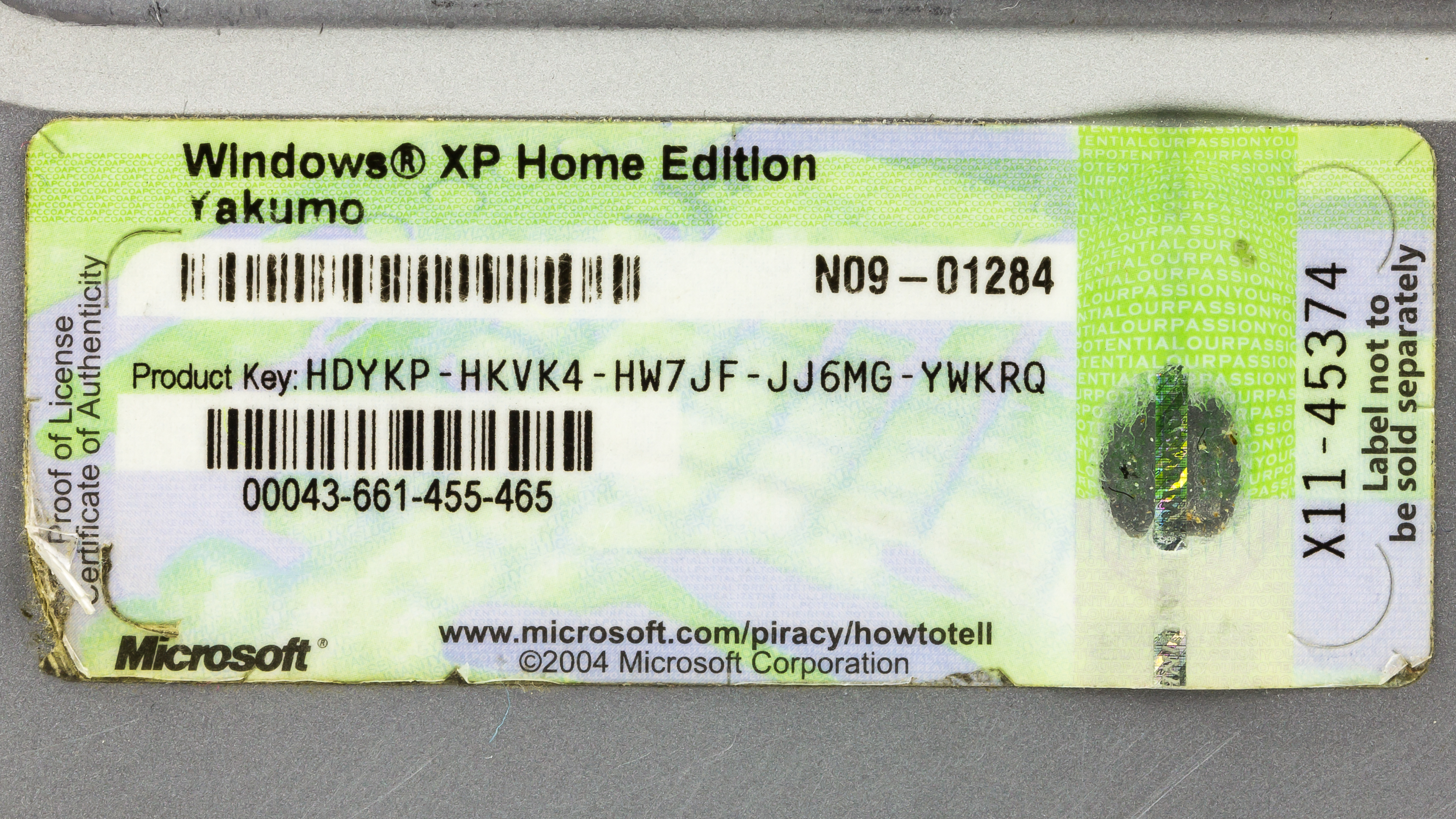 Yakumo Notebook 536S - Proof of License Certificate of Authenticity for Microsoft Windows XP Home Edition - OEM for Yakumo